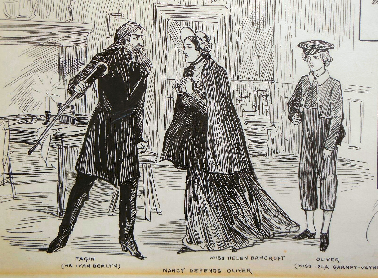 Drawing of the actor Ivan Berlyn (1867-1934) as Fagin in 'Oliver Twist' - artist S A H Robinson (dates unknown) in 'The Daily Graphic' (1903)